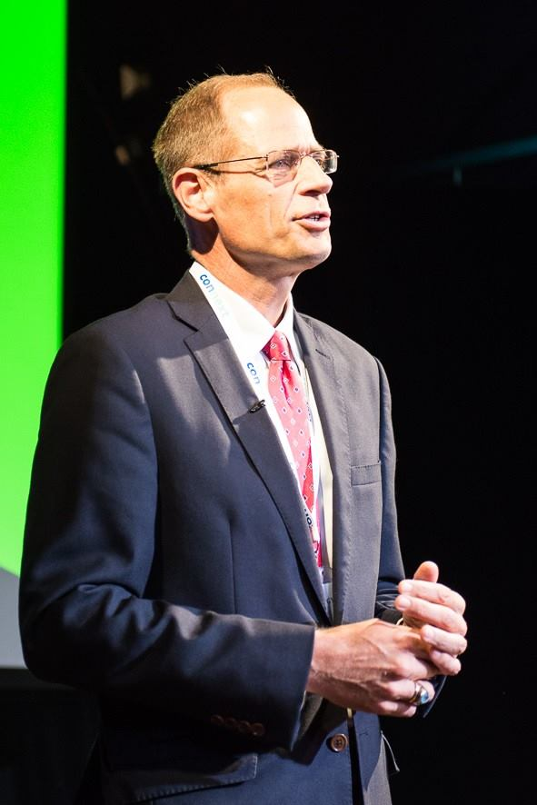 Peter Szabadhegy, Director of International Affairs, SFC, is holing a presentation at the Center's international conference. 23 03 2018, Budapest